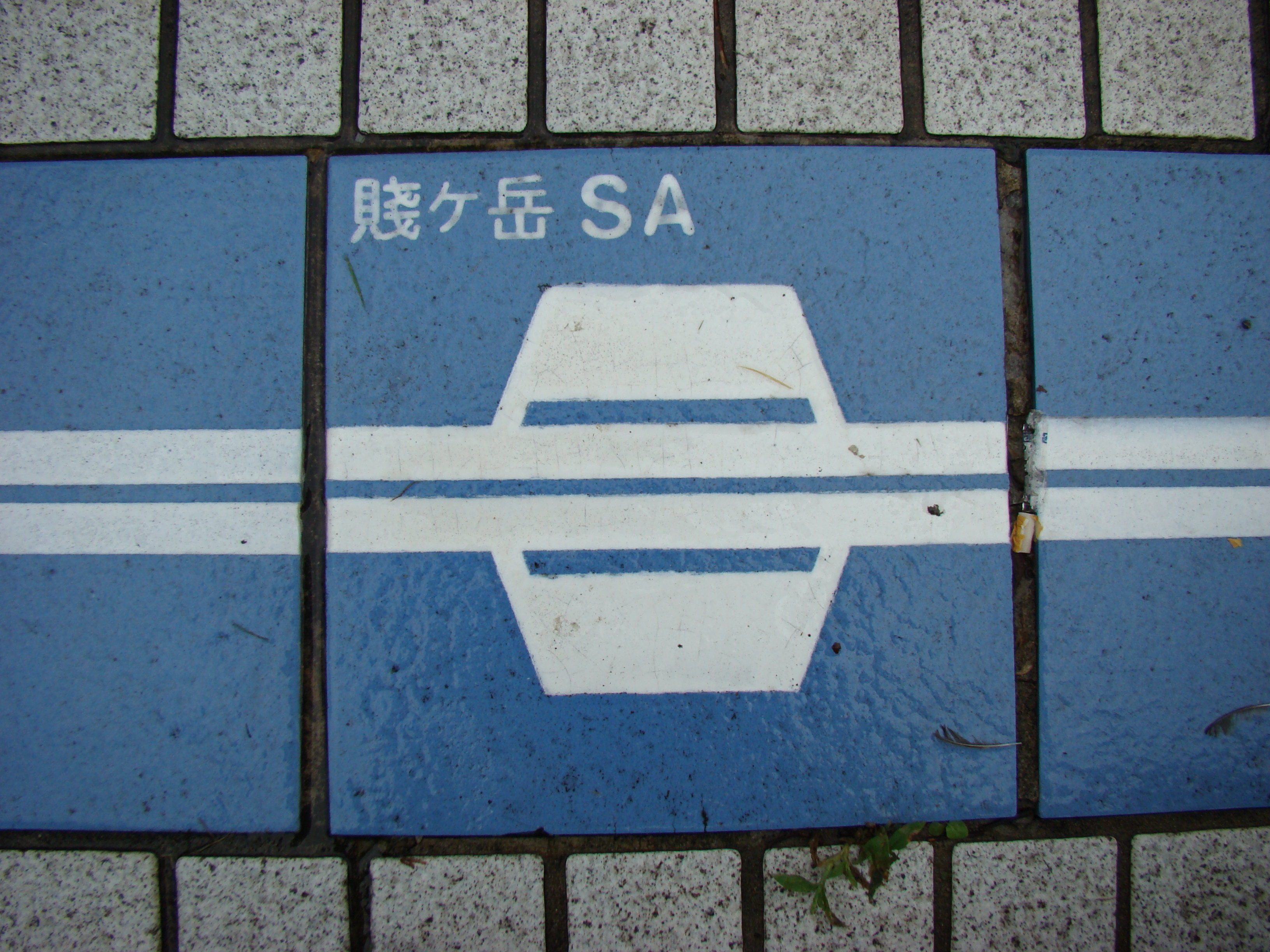 The tile which designed a shape of the Shizugatake Service Area（Hokuriku Expressway）（There is this tile in Hokuriku Expressway Nadachi-Tanihama Service Area.）. Place - Chayagahara,Joetsu City,Niigata Prefecture,Japan Date - August 9, 2009 Format - JPEG, 3264x2448pixel, 24bit colors. Photographer - NALA Wiki (talk)